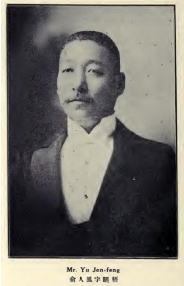 Yu Renfeng (1873-1944)